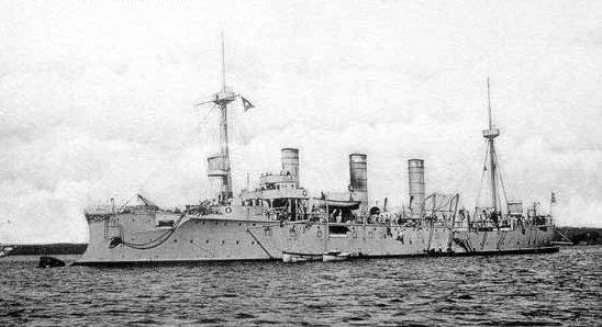 SMS Gefion (1893-1923) was a light cruiser of the Kaiserliche Marine (German Imperial Navy) launched in 1893.